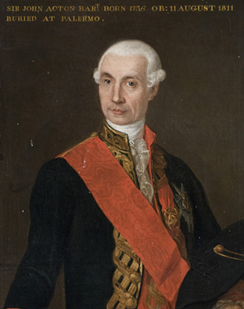 Sir John Francis Edward Acton, 6th Baronet (1735-1811)